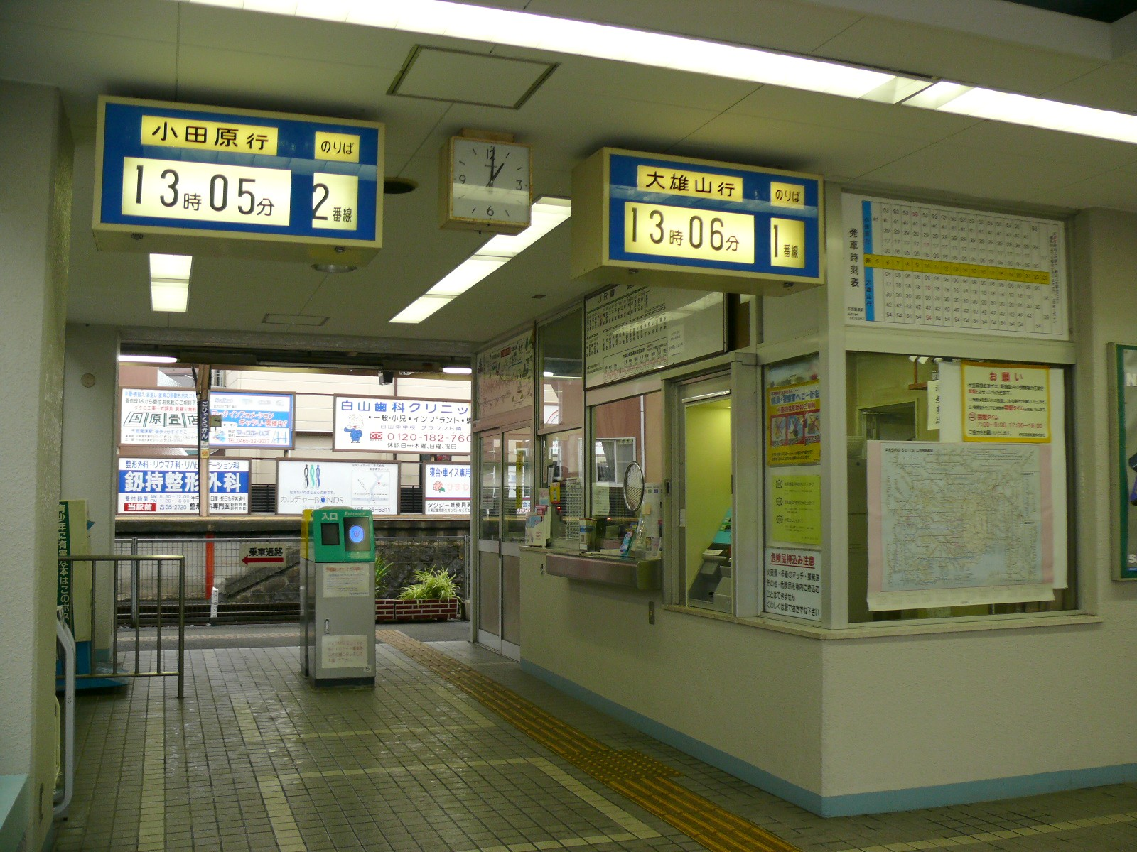 Izuhakone Railway Daiyūzan Line Gohyakurakan station Ticket gate(Japan,Kanagawa prefecture,Odawara city).